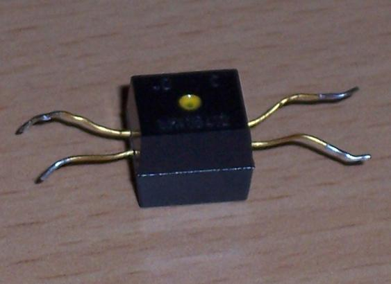 Photo of Opto-isolator